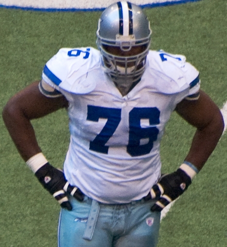 Dallas Cowboys offensive tackle Flozell Adams in the huddle in the game against the Philadelphia Eagles on December 16, 2007.